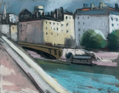 The Banks of the Rhone (date unknown)